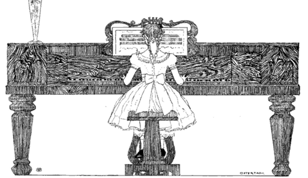 From a drawing by Miss Ostertag in "Old Songs for Young America". Copyright, 1902, by Doubleday, Page & Co.